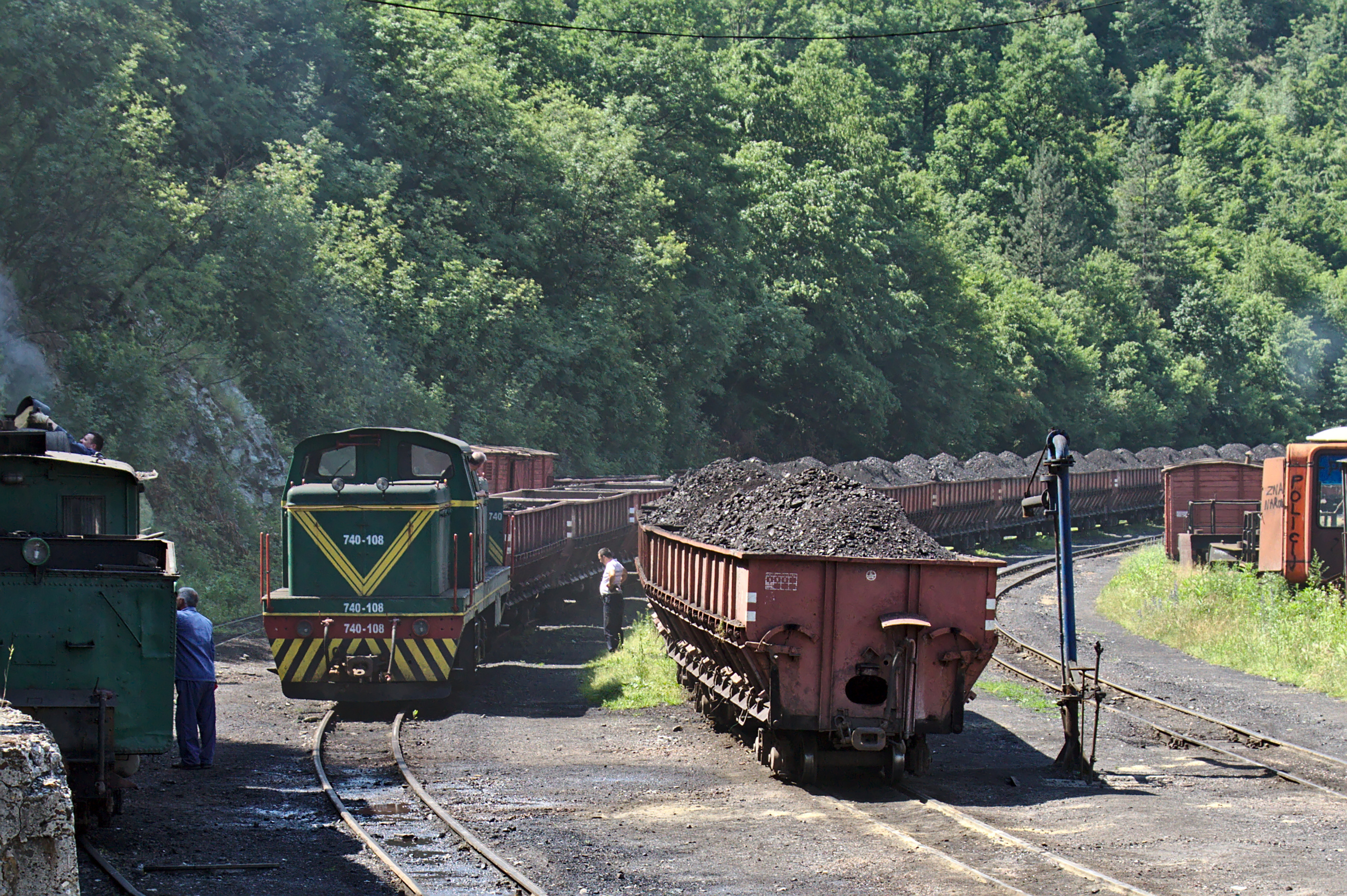 Oskova station at the coal washing plant, 740-108 and a rake of loaded coal wagons.